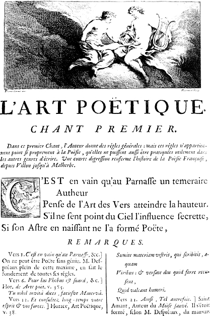 Frontispiece of Nicolas Boileau's L'Art poétique illustrated by Hyacinthe Rigaud (1674).